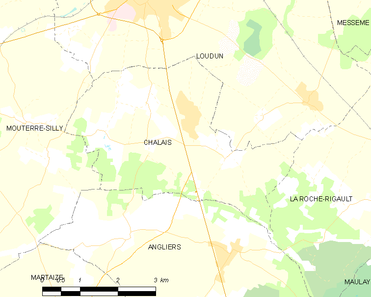 Map of French municipality Chalais